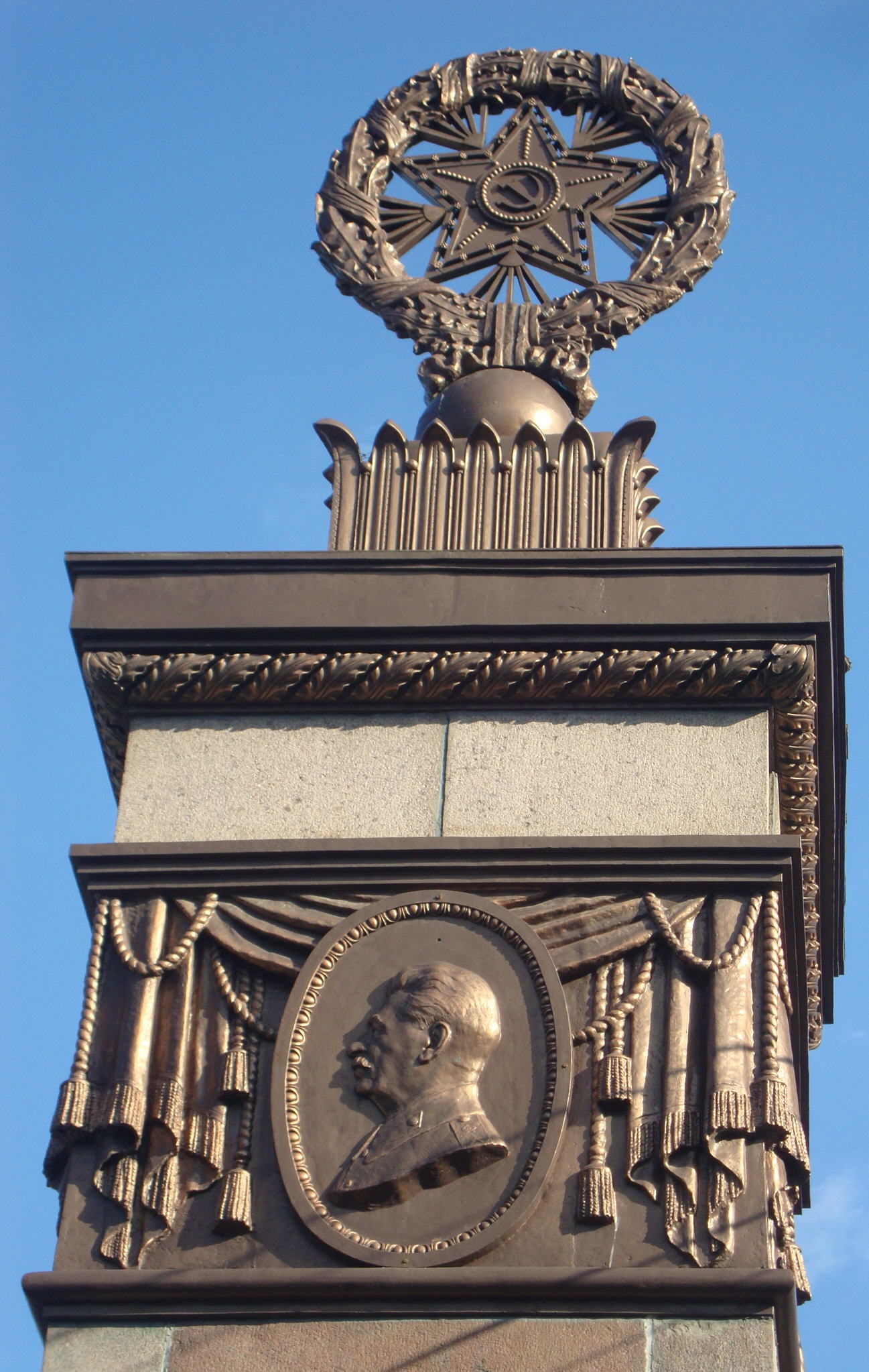 Triumph pylon up